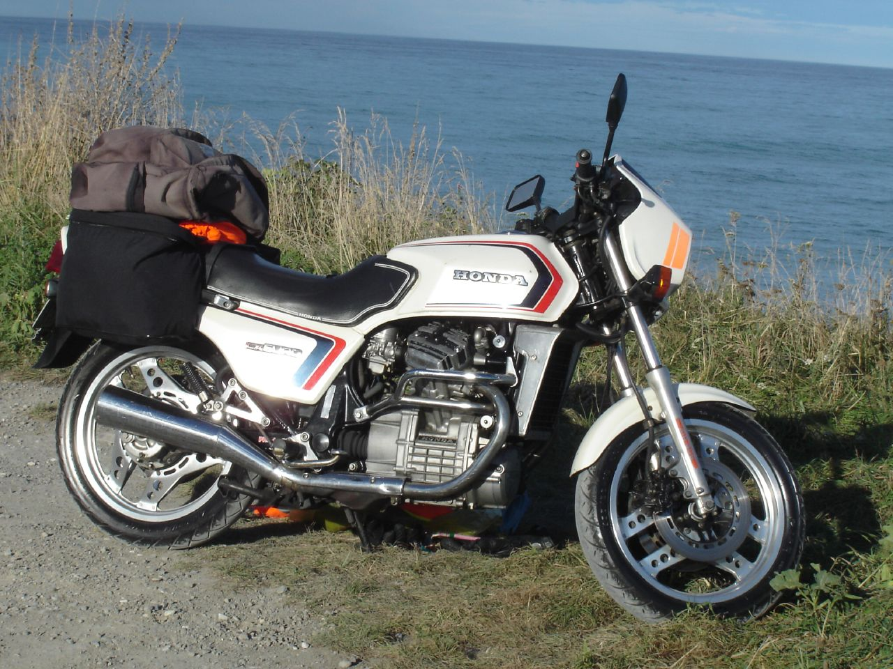 My new CX400, near Kaikoura. / I have too many motorcycles.